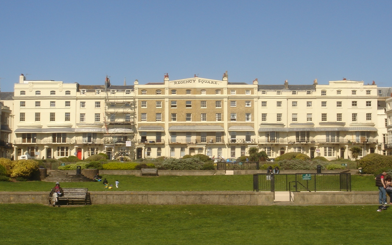 26–37 Regency Square, Brighton, City of Brighton and Hove, England. The north part of the Regency Square development built in Brighton around 1818. Listed at Grade II* by English Heritage (IoE Code 481129)